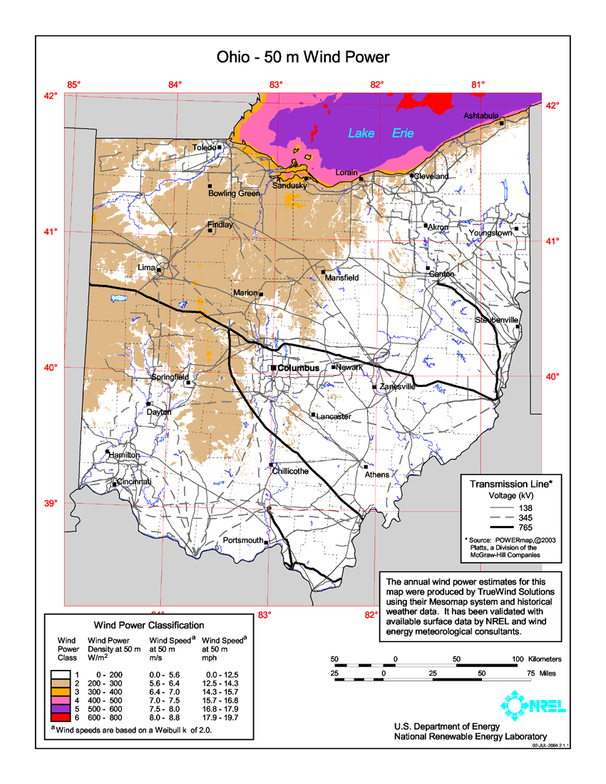 Average annual wind power distribution for Ohio, 50m height above ground, also showing location of existing electrical transmission lines